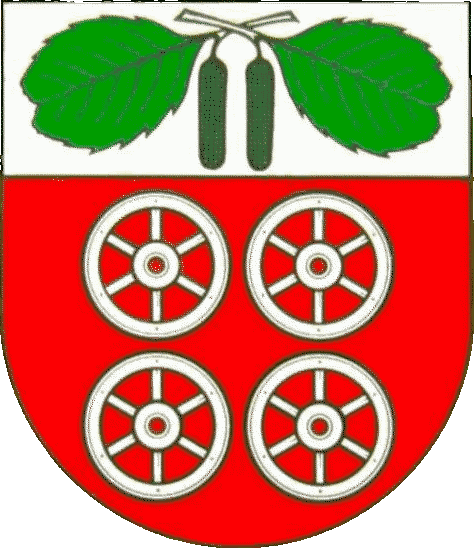 Coat of arms of the municipality Barsbüttel in Schleswig-Holstein, Germany.